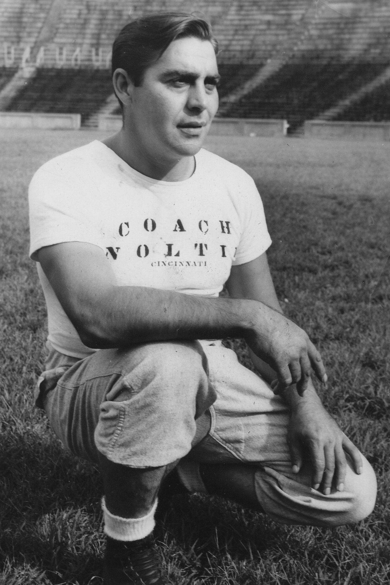 University of Cincinnati head football coach Ray Nolting